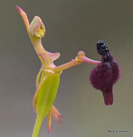 King-in-his-carriage (hammer orchid)